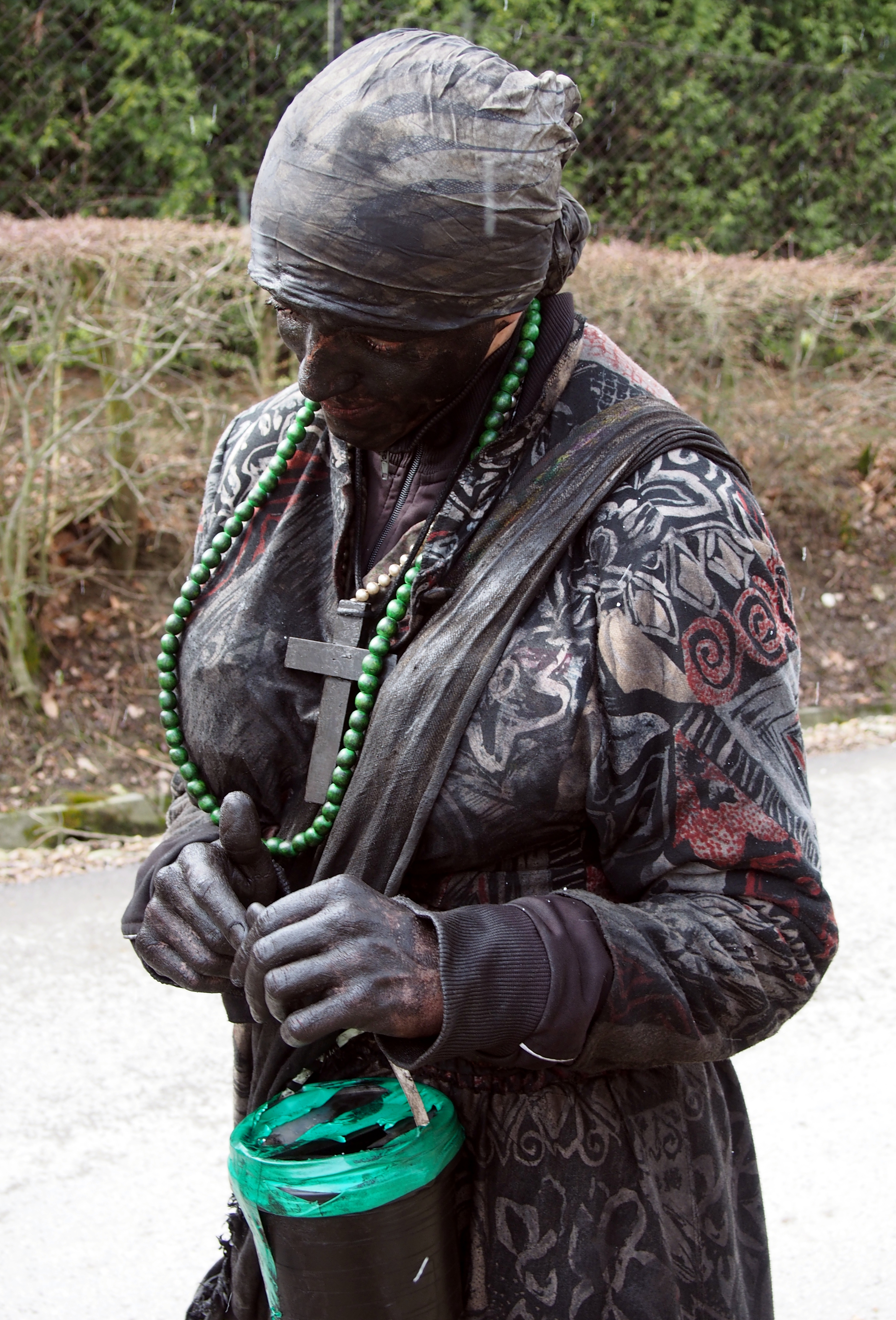 Siuda Baba, Polish folk tradition on Easter Monday, 6th April 2015, Lednica Górna, Poland. The ritual participant dressed up as Siuda Baba waits for the residents to decide whether to let them in.